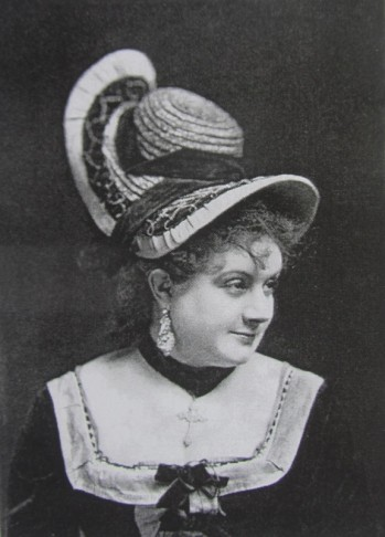 Marie Desclauzas (Malvina-Ernestine Armand, 1840–1912), French comedy and operetta actress and singer